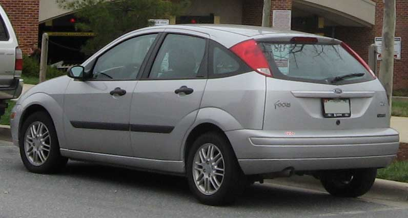 2002-2004 Ford Focus photographed in College Park, Maryland, USA.